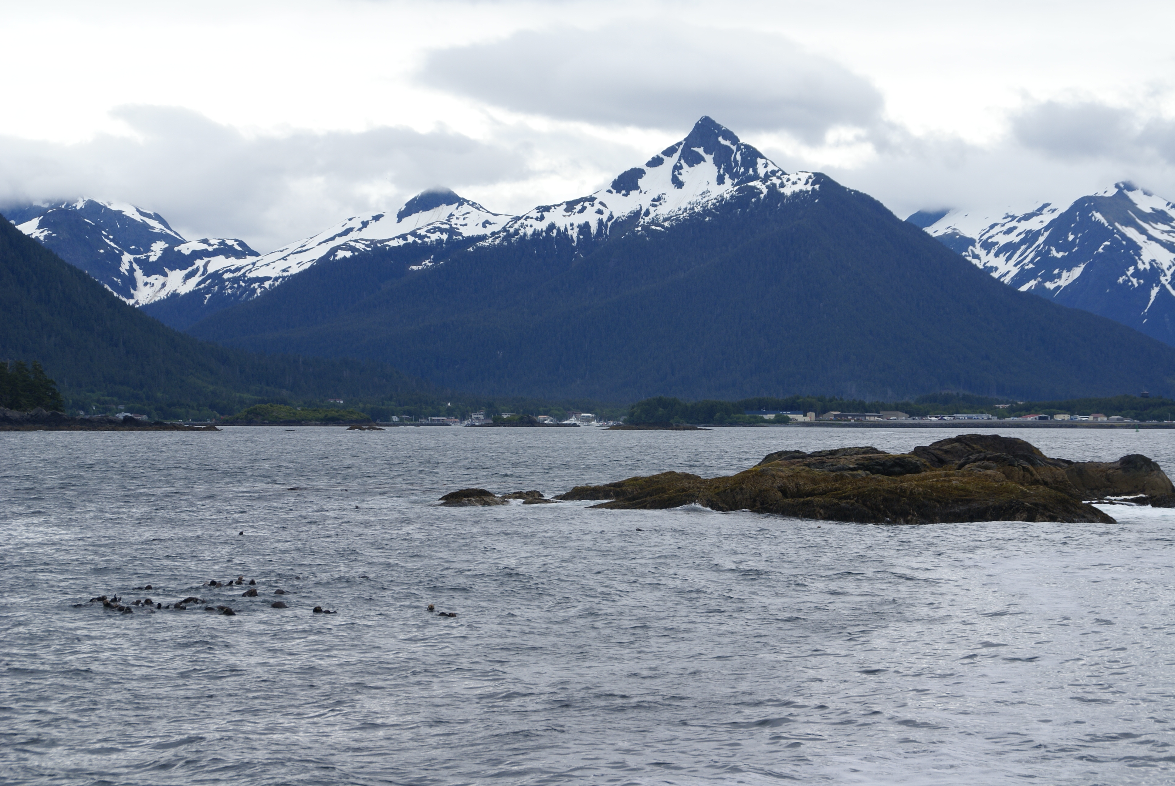 A group of sea otters (lower left) with mountains behind, in the Sitka Sound. (dsc06366)